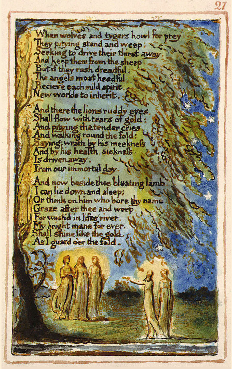 Songs of Innocence and of Experience, object 21 (Bentley 21, Erdman 21, Keynes 21) "Night (continued)"